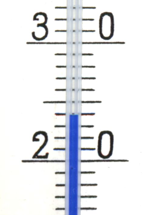 thermometer scale